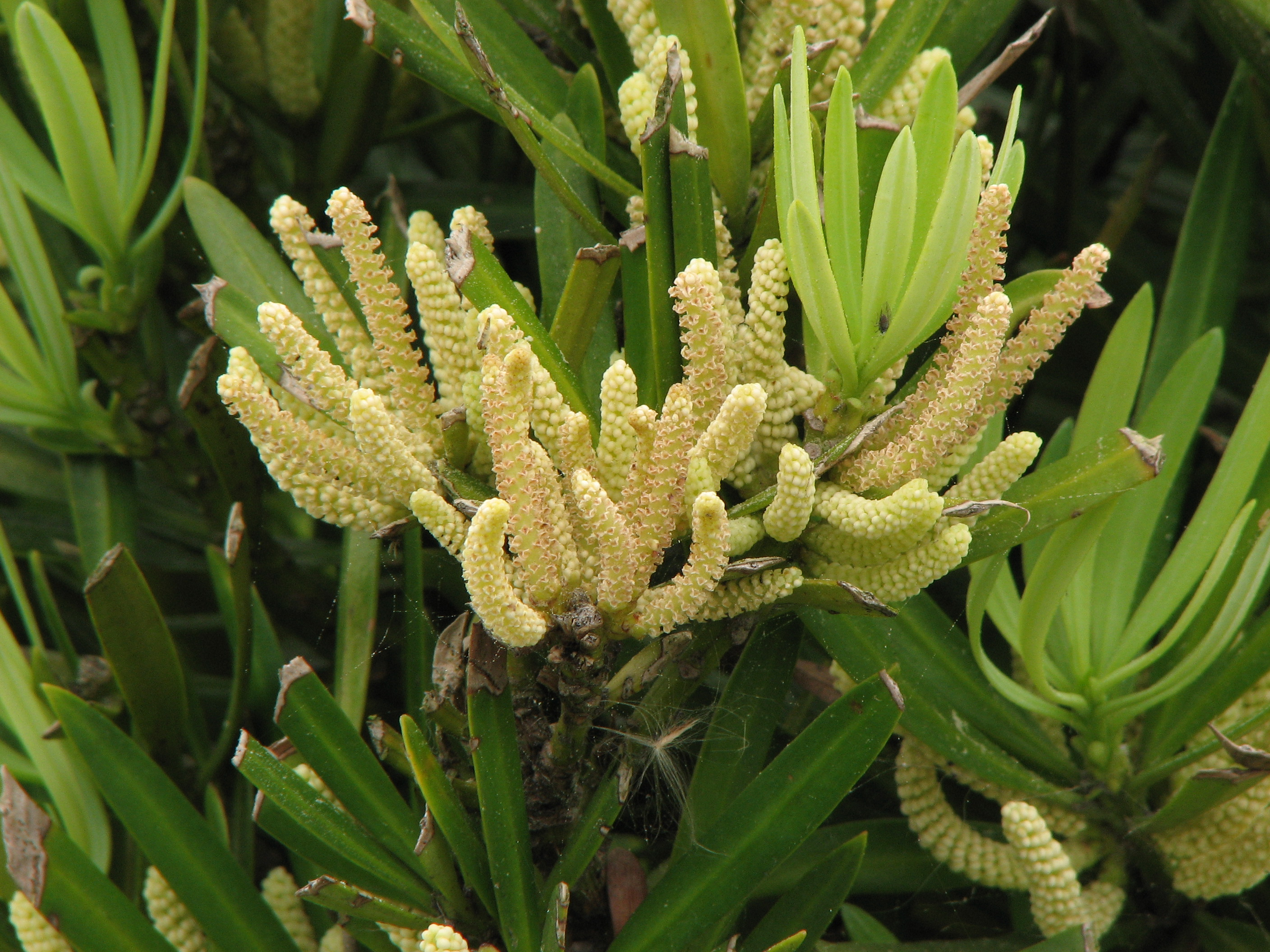 Podocarpus macrophyllus flower at Chiba pref. Japan.